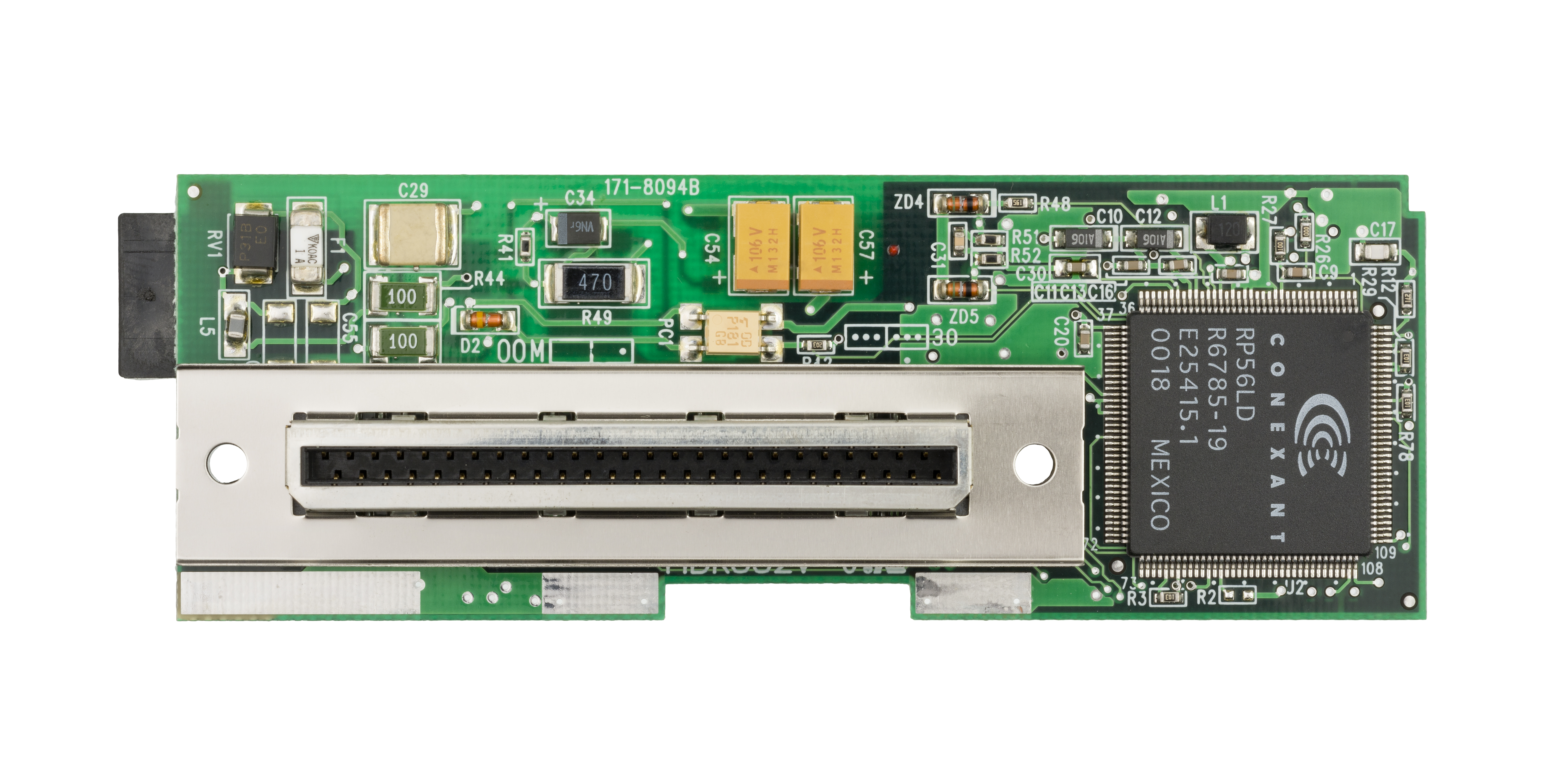 The motherboard for the Sega Dreamcast 56.6K dial-up modem. Used for browsing the web and playing against others online, every Dreamcast was bundled with this modem. Unlike other external modems, this was built into the design of the body and sits flush when installed. It is removable, and can be upgraded with a rare broadband version that was sold separately.